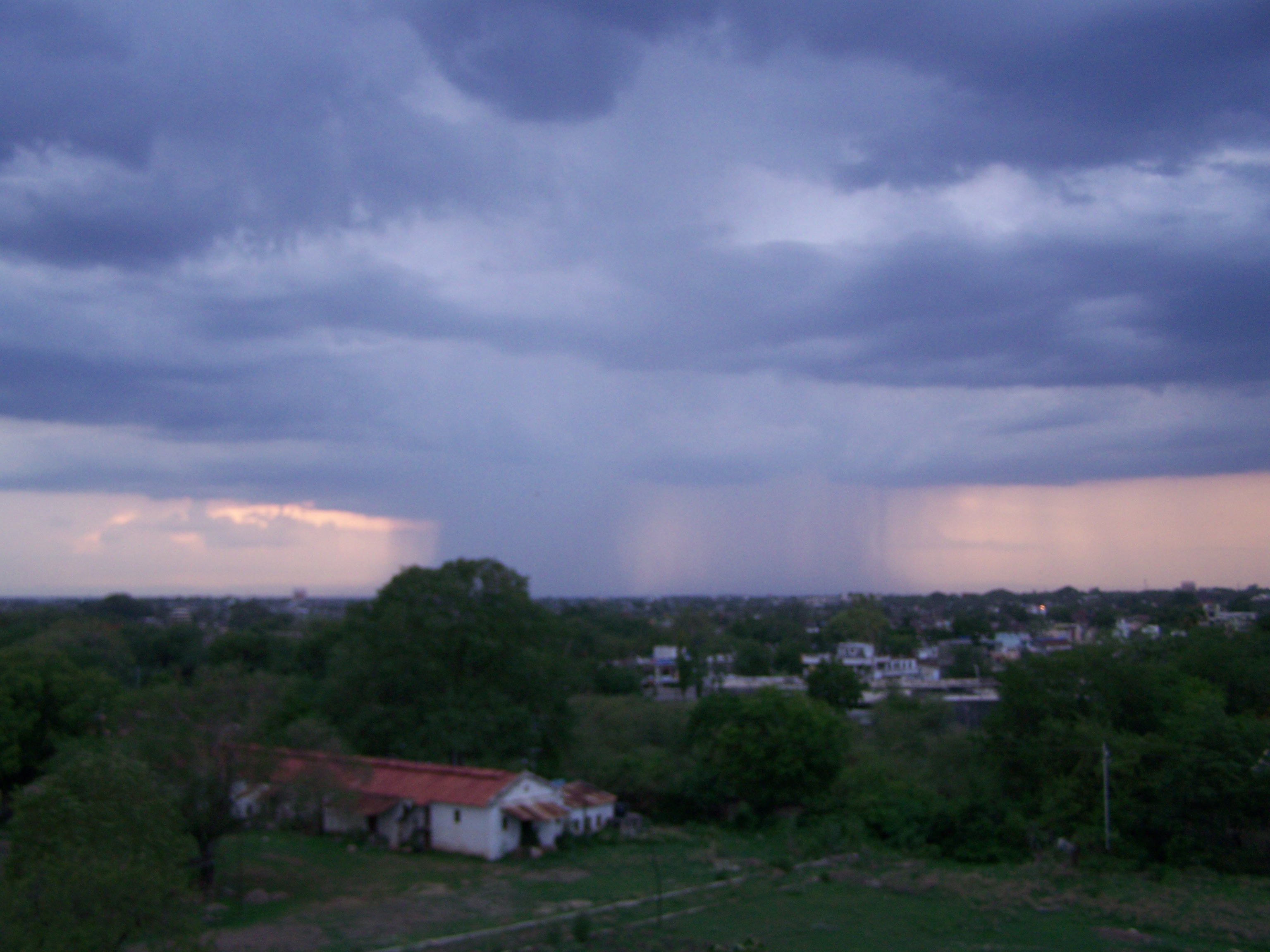 Rainfall in Amravati